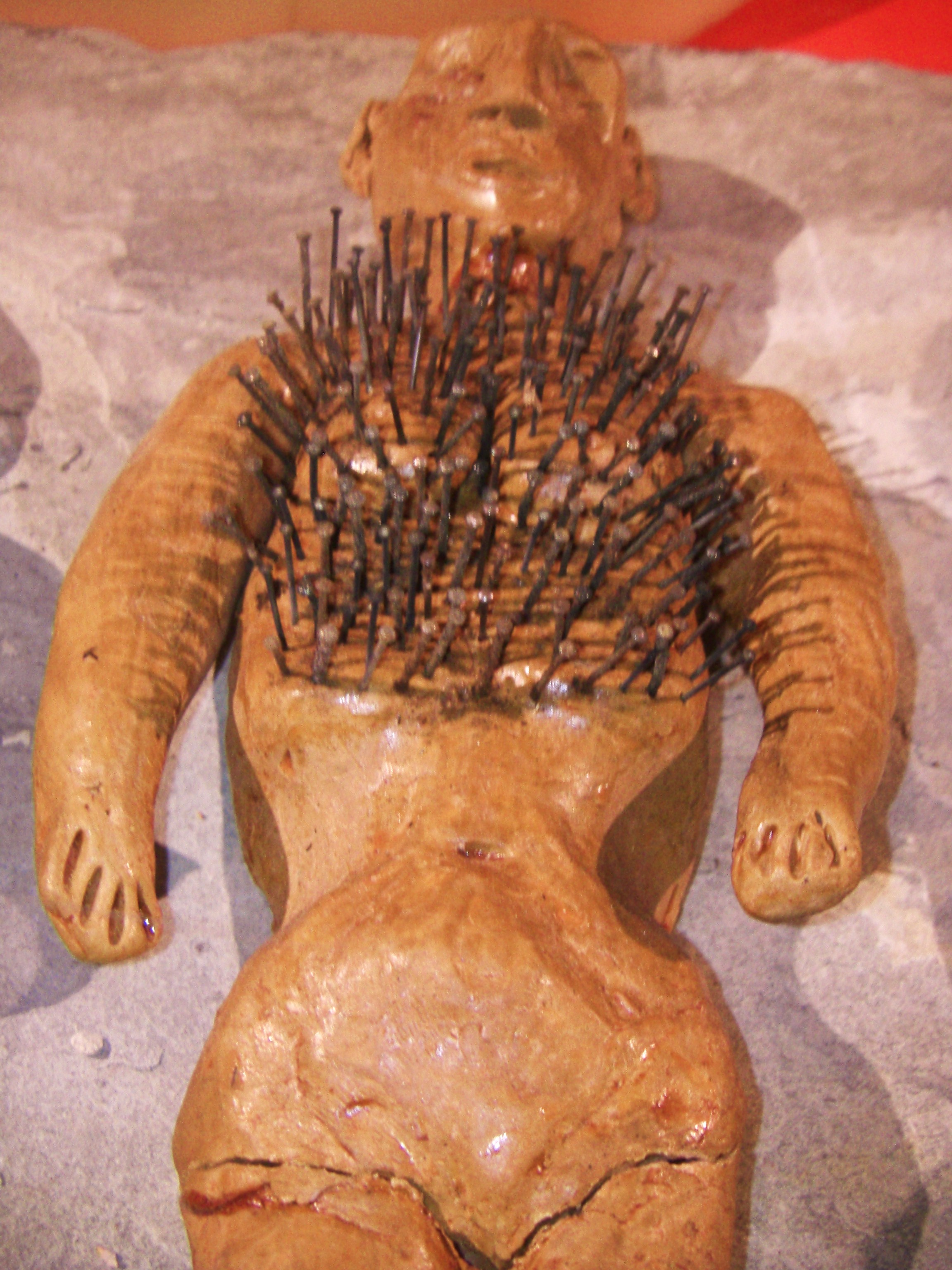 A figurine of a human with pins stuck in it. From the Museum of Witchcraft, Boscastle.